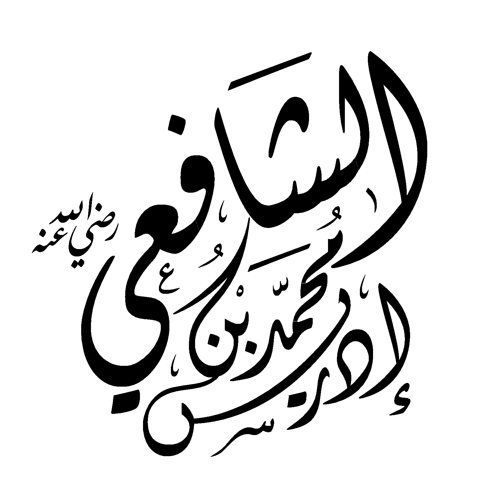 Al-Shafi‘i's name in Arabic script